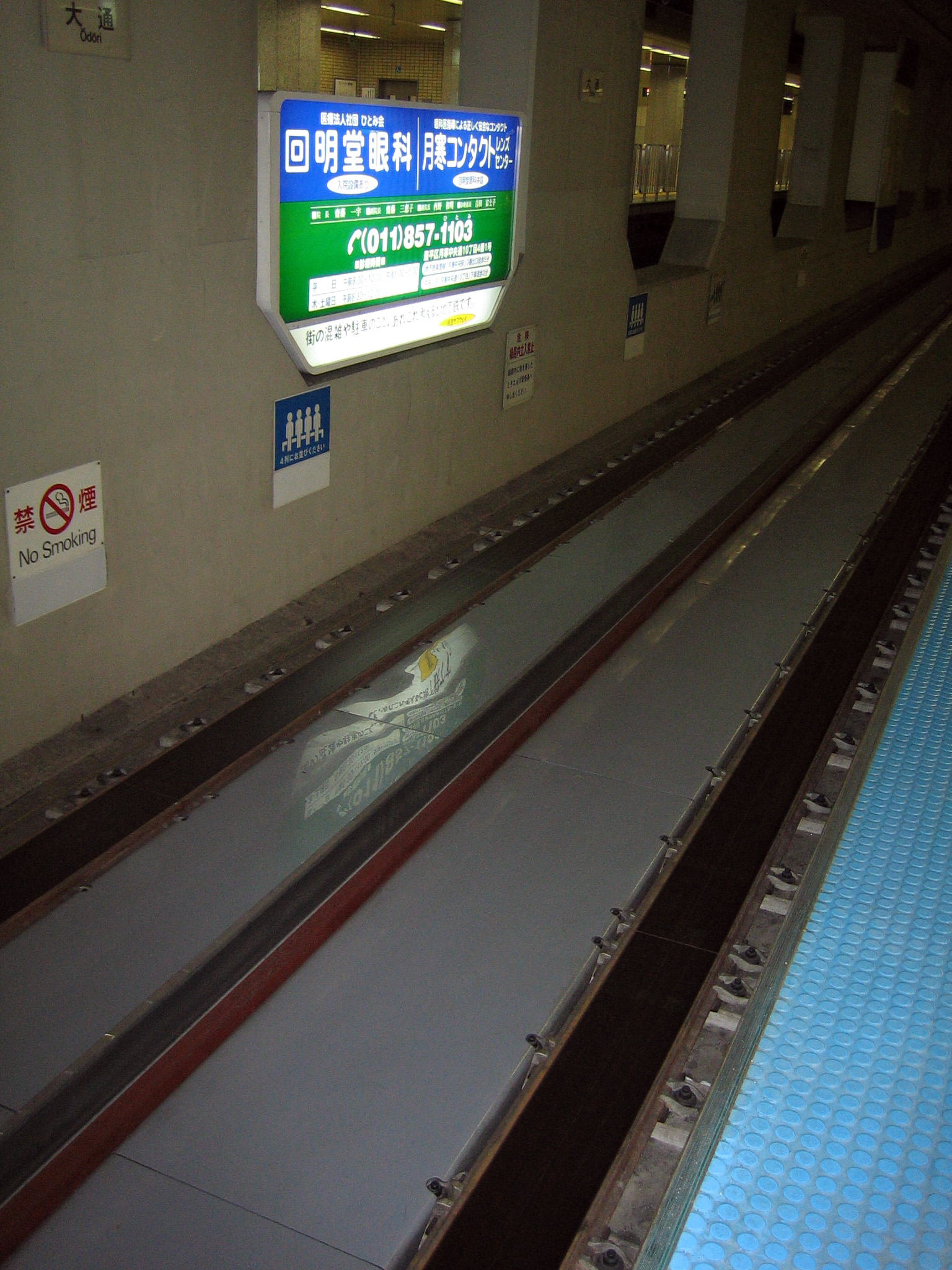 I took this picture. Any reproduction, and subsequent reproductions, must include the following attribution: "Matthew Anderson, 2006"